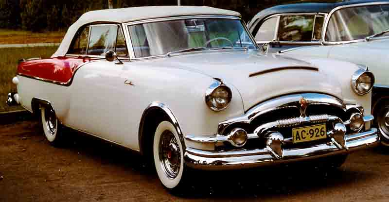 1954 Packard Caribbean